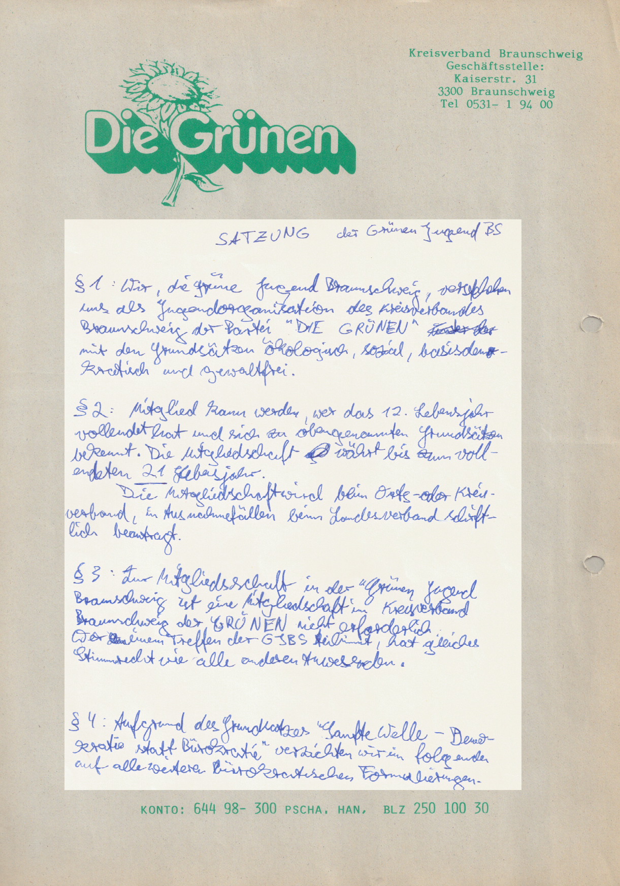 Statutes of the first "Green Youth" Grüne Jugend organization in Germany, which was founded in Braunschweig, Lower Saxony, Germany, in the year 1981, a full ten years before the first stable state-wide coordination of the organization - Grüne Jugend Hessen - was established in 1991. Age limits were 12 for the youngest and 21 (as opposed to 27 now and 35 with other parties) the oldest.